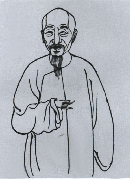 Pan Shihuang, scholar of the Qing Dynasty.